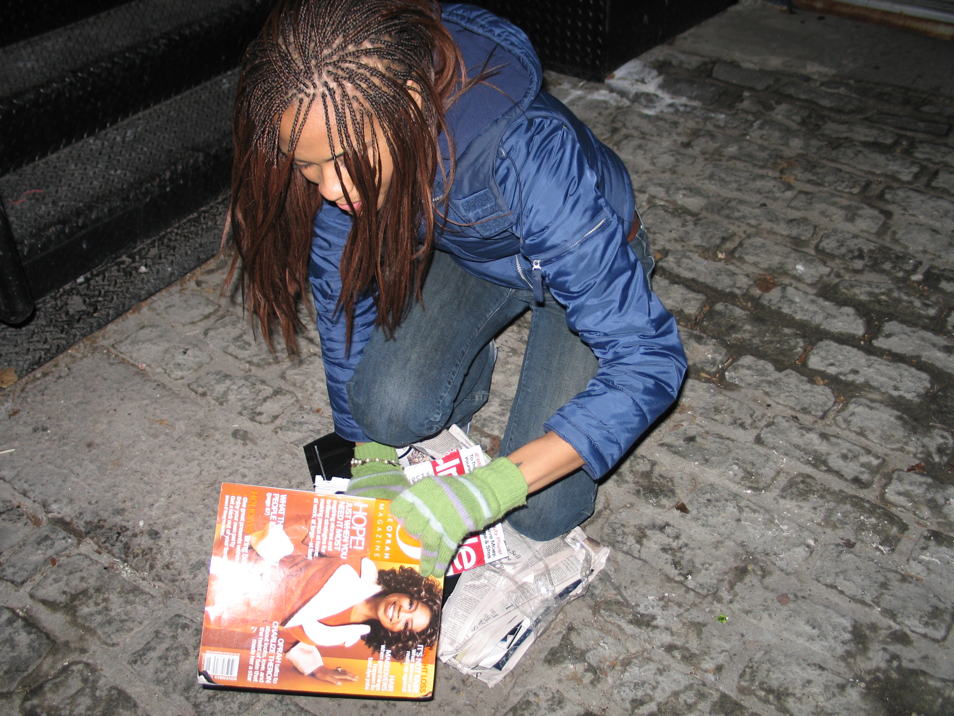 A person practising dumpster diving